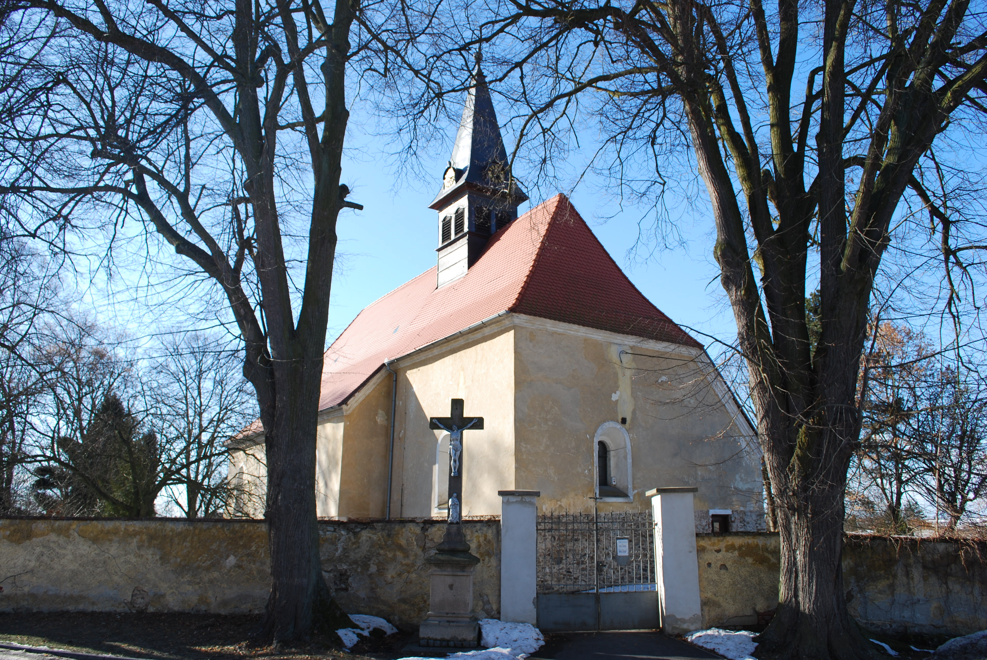 Saint Andrew church in Hlavatce village in n Tábor District, Czech Republic This photograph was taken within the scope of the 'Czech Municipalities Photographs' grant.